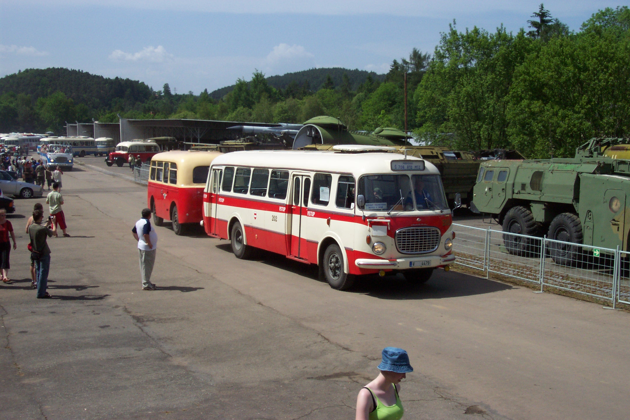 Škoda 706 RTO in convoy with trailer